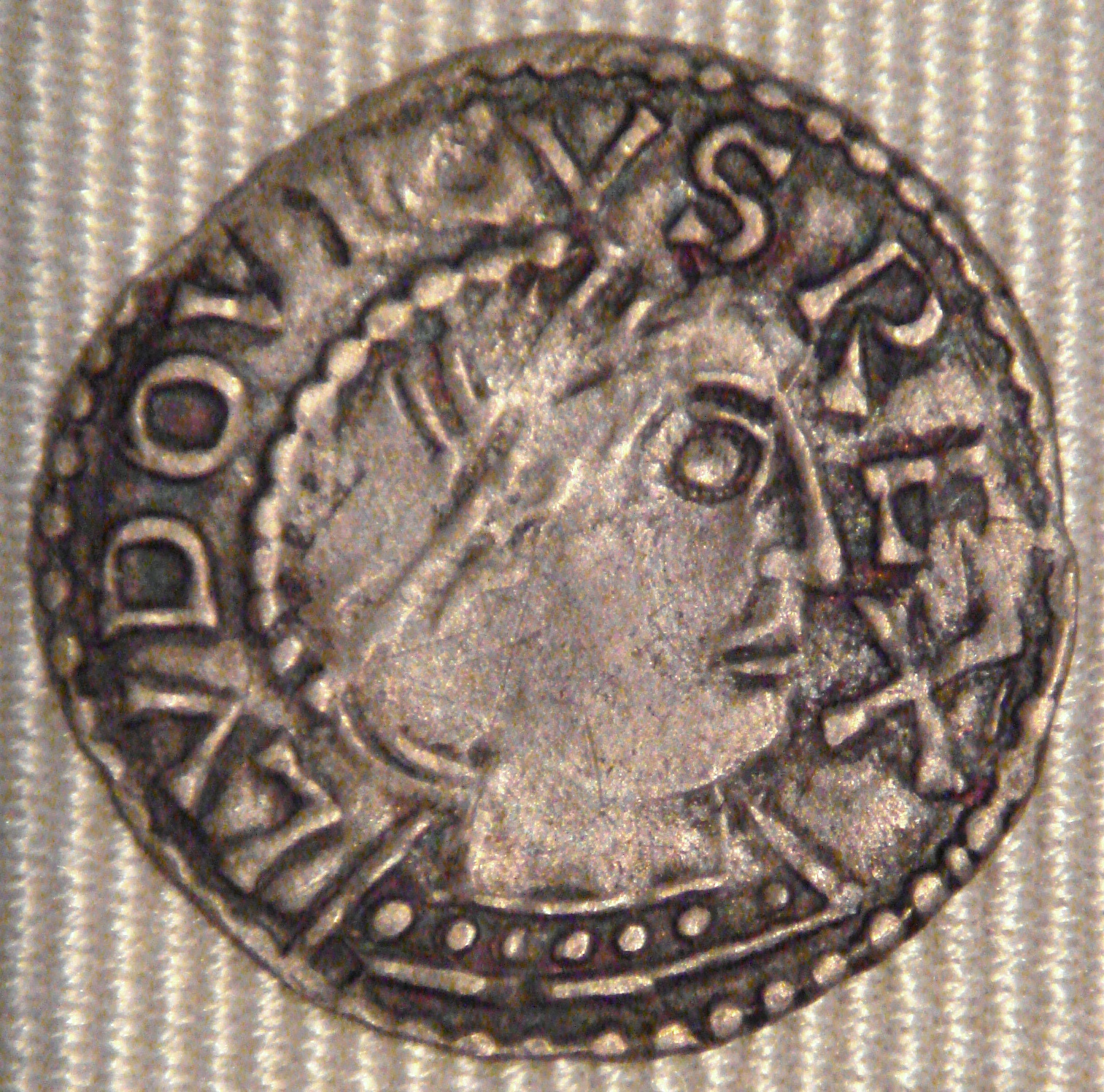 Louis_IV_denier_Chinon_936_954.